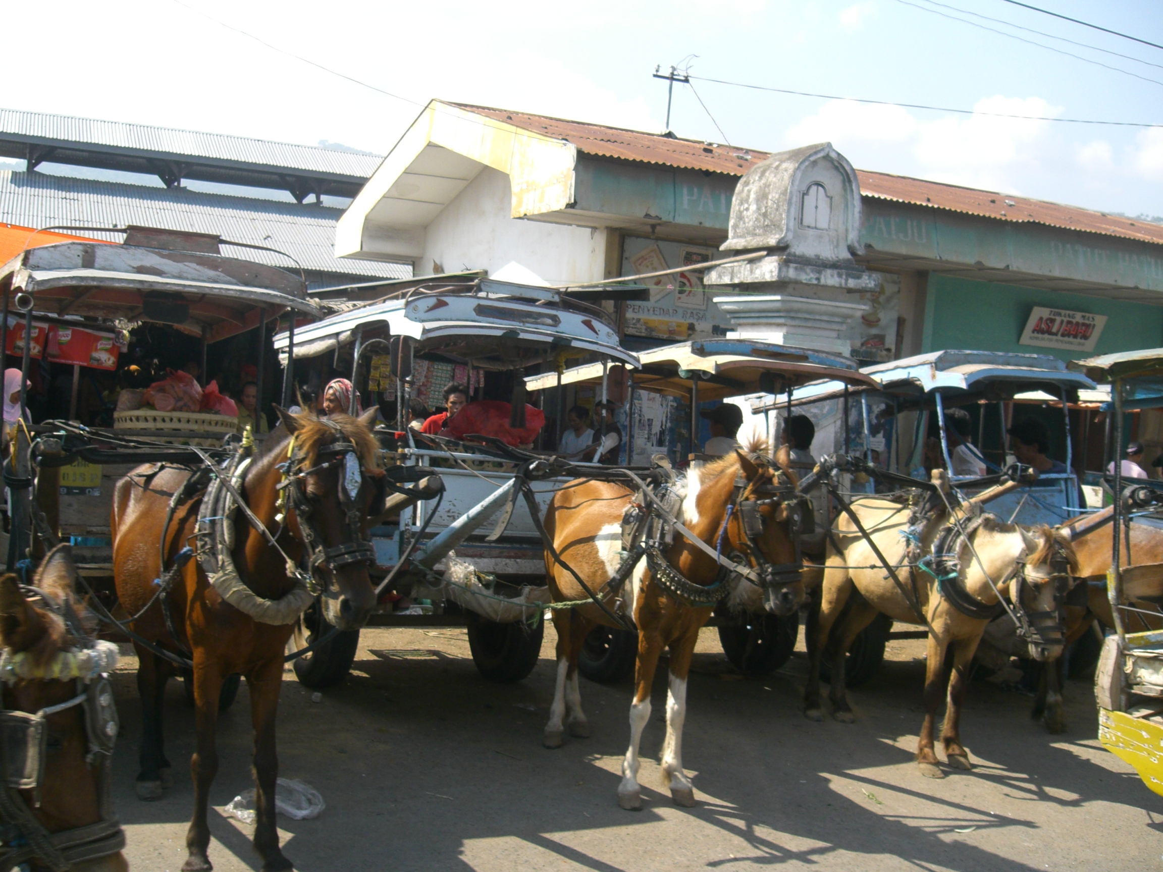 Horse buses in indonesia